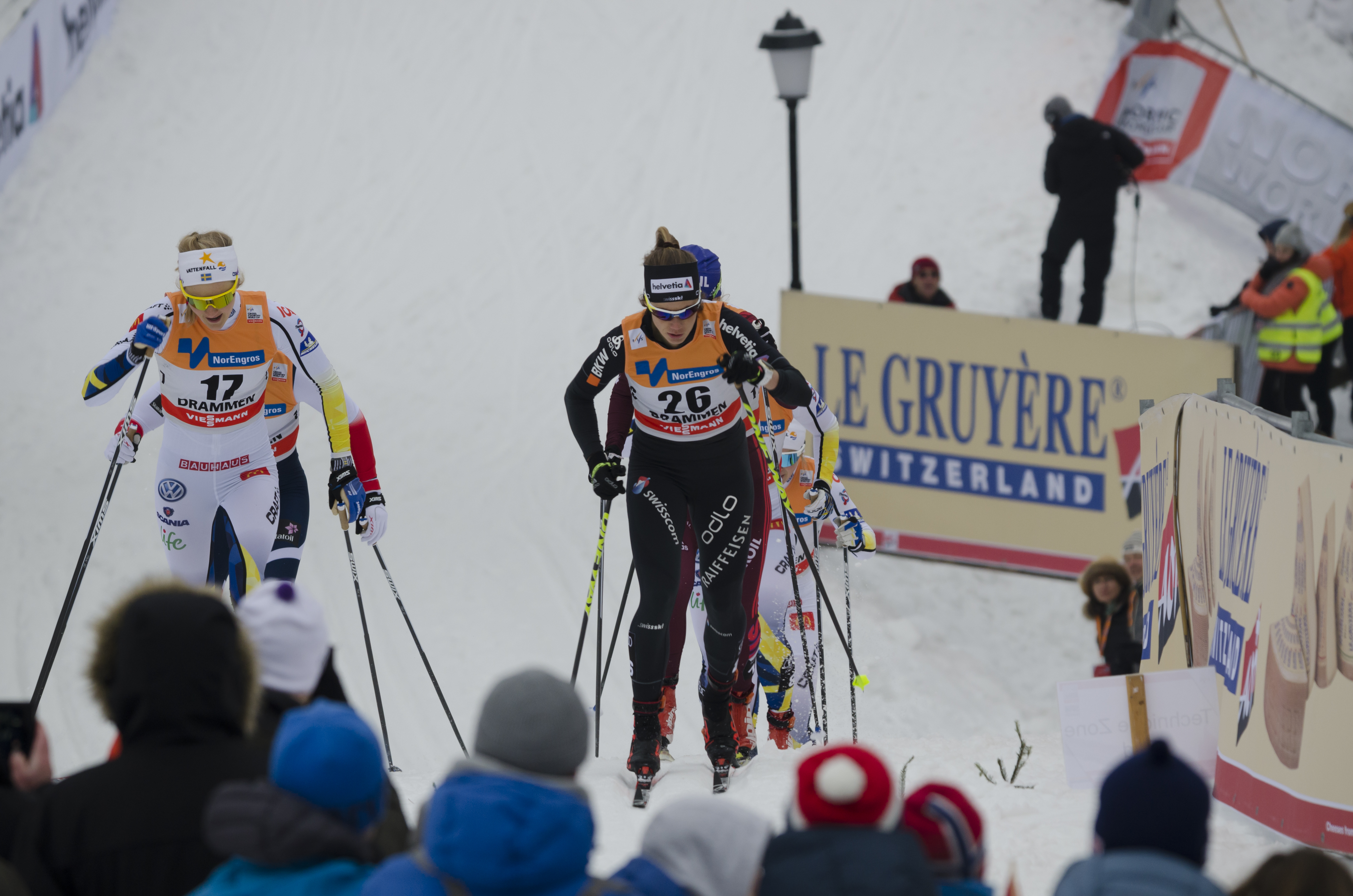 Skiers at the Drammen ski sprint in 2018. In the lead Laurien van der Graaff (right) and Stina Nilsson (left).